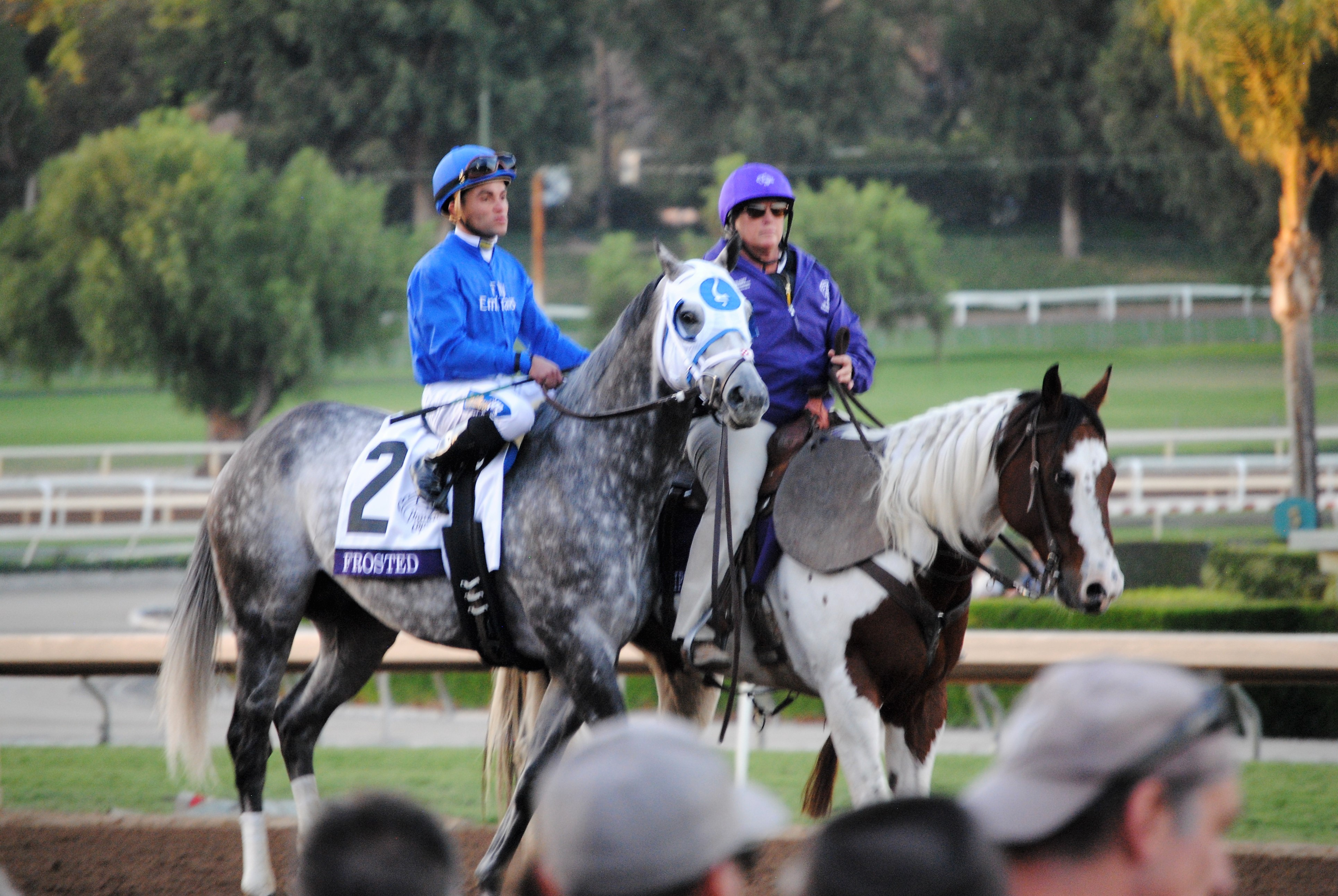 Frosted waiting for loading to begin for the 2016 Breeders' Cup Classic